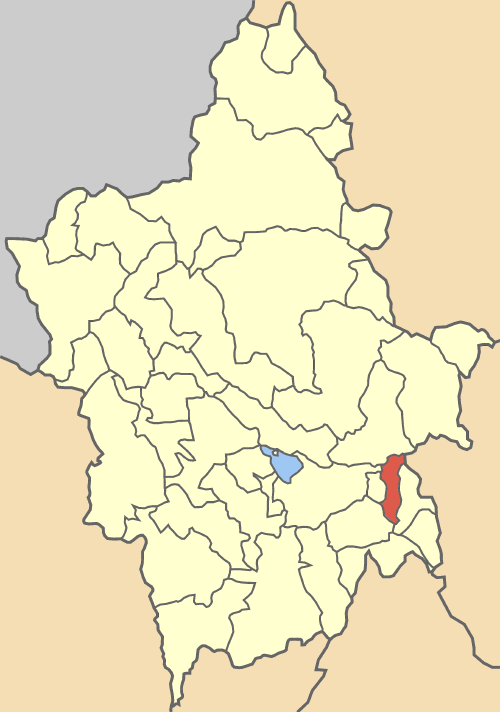 Position of Sirako Community (Κοινότητα Σιράκο) in Ioannina prefecture (Νομός Ιωαννίνων), Greece